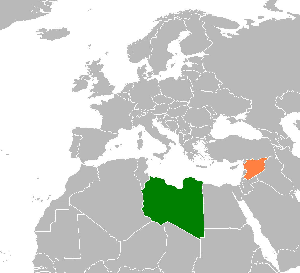 Locator map showing Libya and Syria